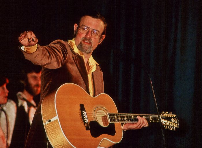 Roger Whittaker during a concert given at the Weser-Ems-Hall at Oldenburg (Lower Saxony, Germany) in 1976